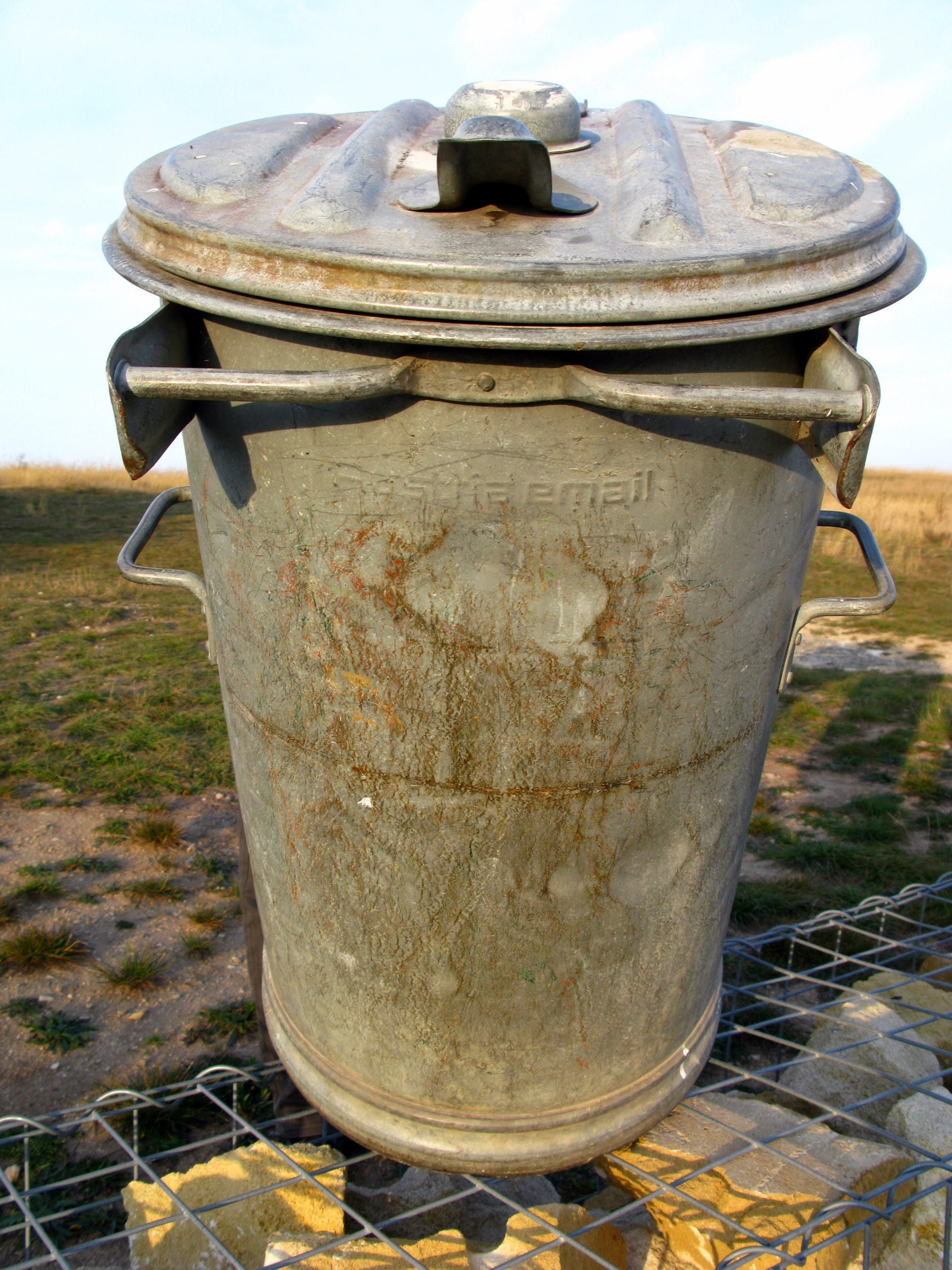 Wheelie bin near Römersteinbruch in St. Margarethen near Lake Neusiedl / Burgenland / Austria / EU.